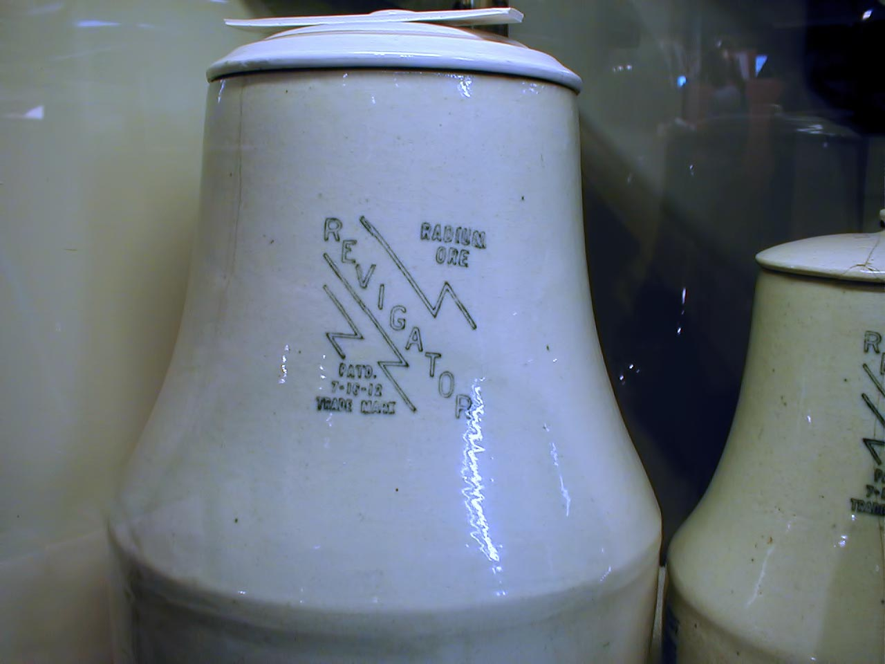 More misuse of radiation. The 1929 Revigator (sometimes misspelled Revigorator) was a pottery crock lined with radioactive ore that emitted radon; drinking water in such a crock would be curative. Water stored in a Revigator overnight acquires a few hundred to a few hundred thousand picocuries per liter. McCoy's book contains several pictures of other radium-water devices.